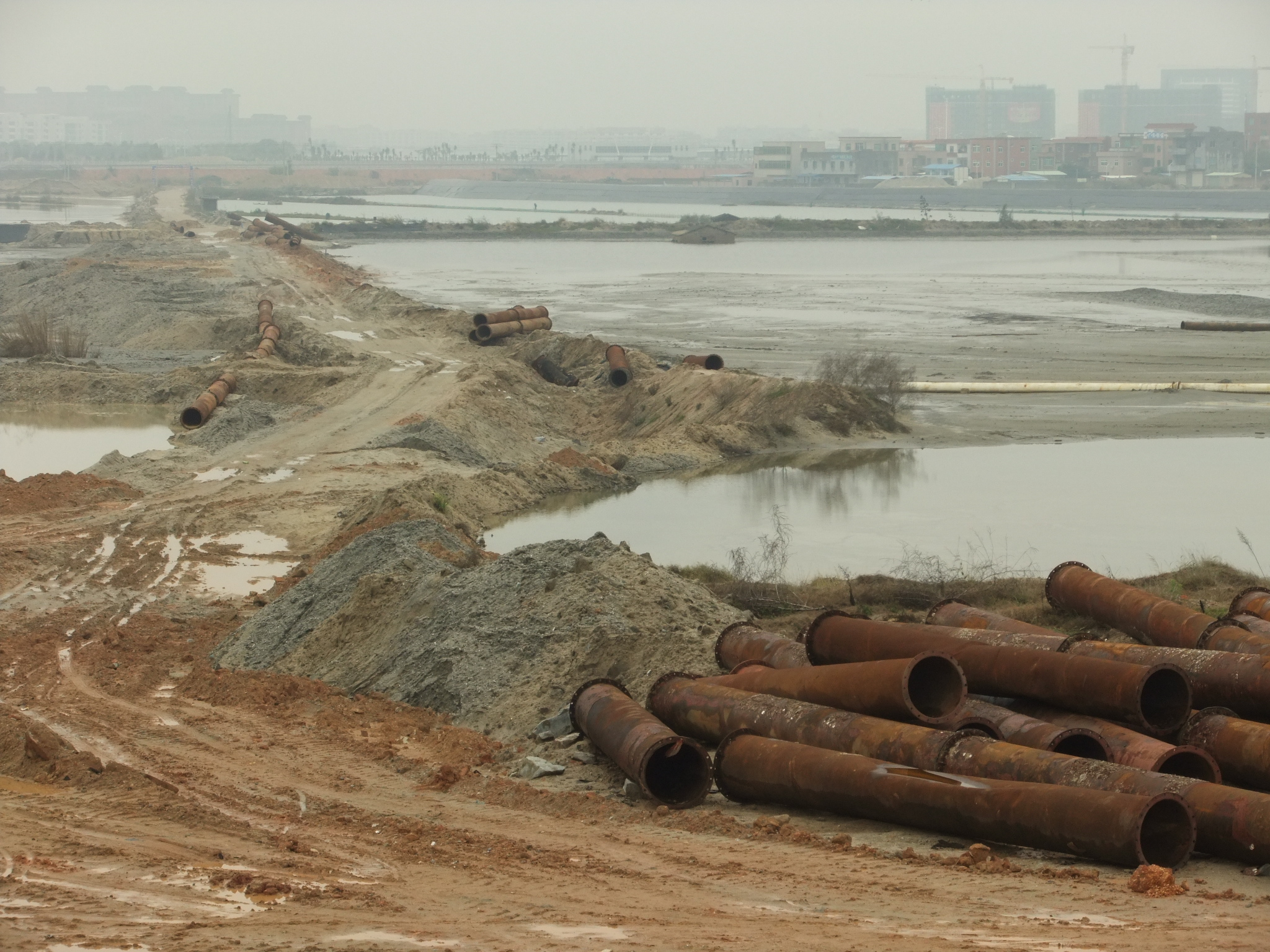 The area around the western end of the Tong'an Bridge, in Xiamen's Tong'an District. (The northwestern shore of Dongzui Bay, including Bingzhou Peninsula) It appears that land reclamation goes on full-speed here. the city creating solid land out a tidal plain!